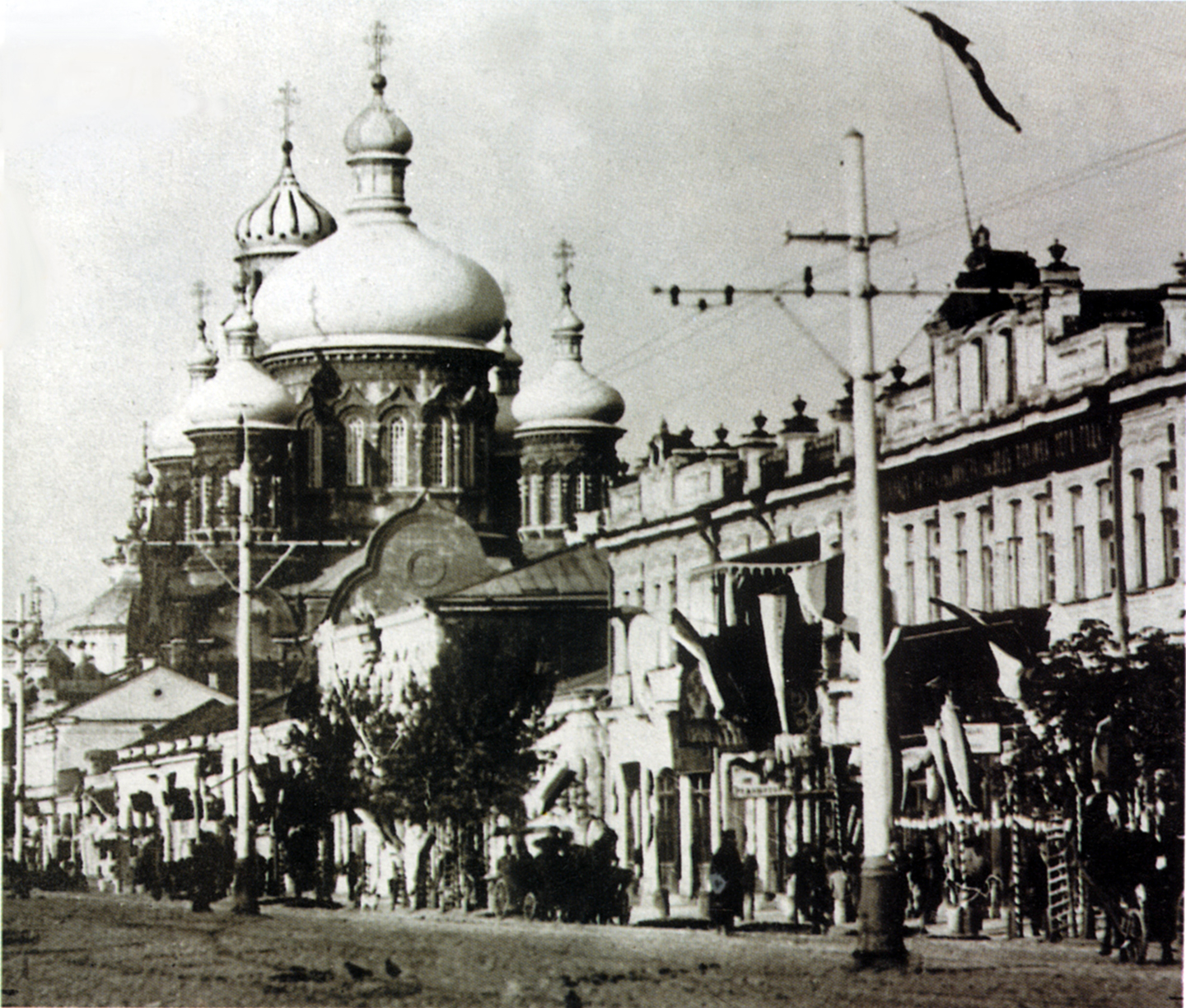 Pokrovskaya church in Oryol